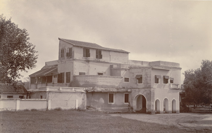 General Wellesley's House, Mysore (1890s), unknown photographer, from the Curzon Collection's 'Souvenir of Mysore Album'